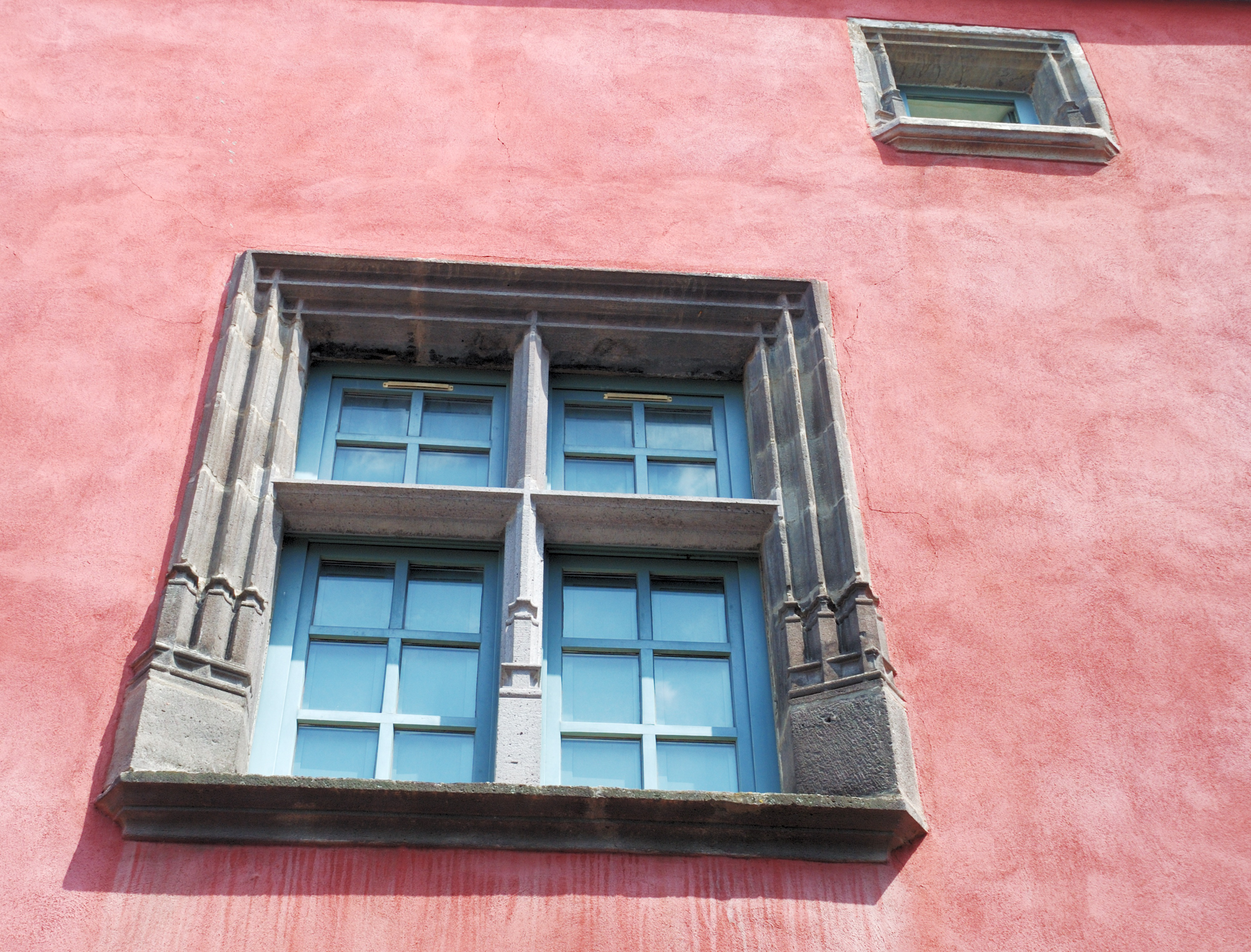 Montferrand area in (Clermont-Ferrand : window with mullions Puy-de-Dôme, France. Translations in other languages are welcome.